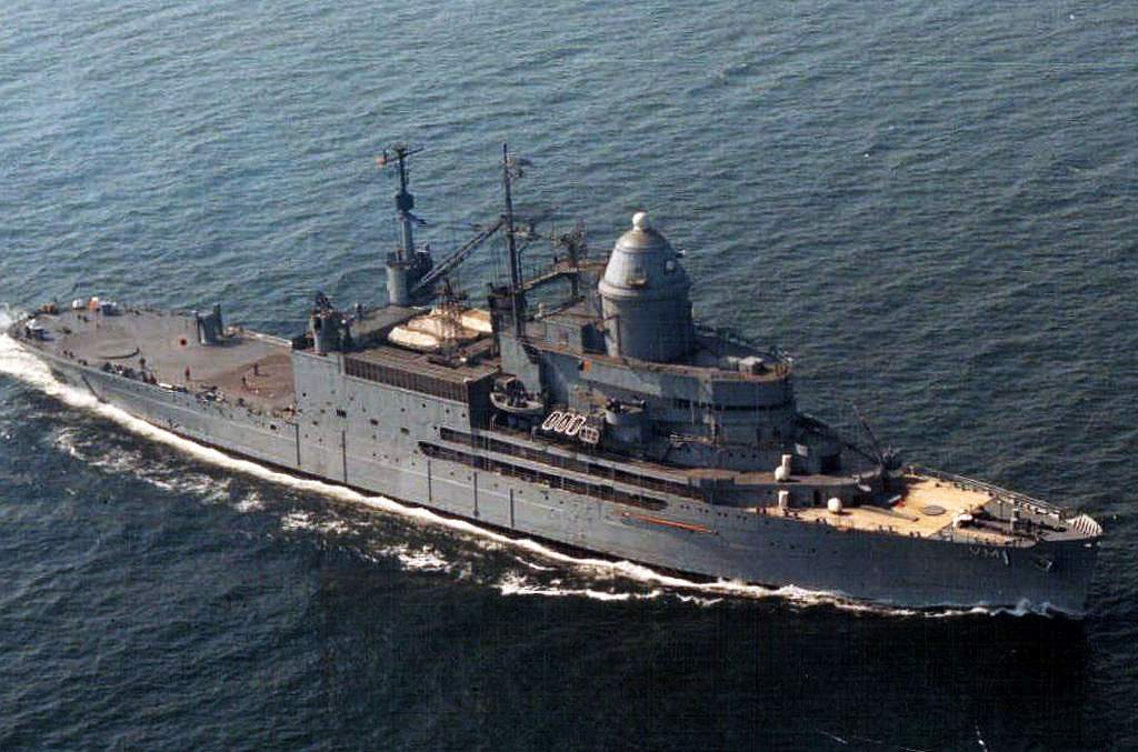 USS Norton Sound (AVM-1) underway at sea on 14 October 1964, as she appeared after 2-year conversion in Maryland Shipbuilding and Drydock Co. in Baltimore in 1964. Note the AN/SPG-59 passive electronically scanned array radar that was part of the Typhon combat system.